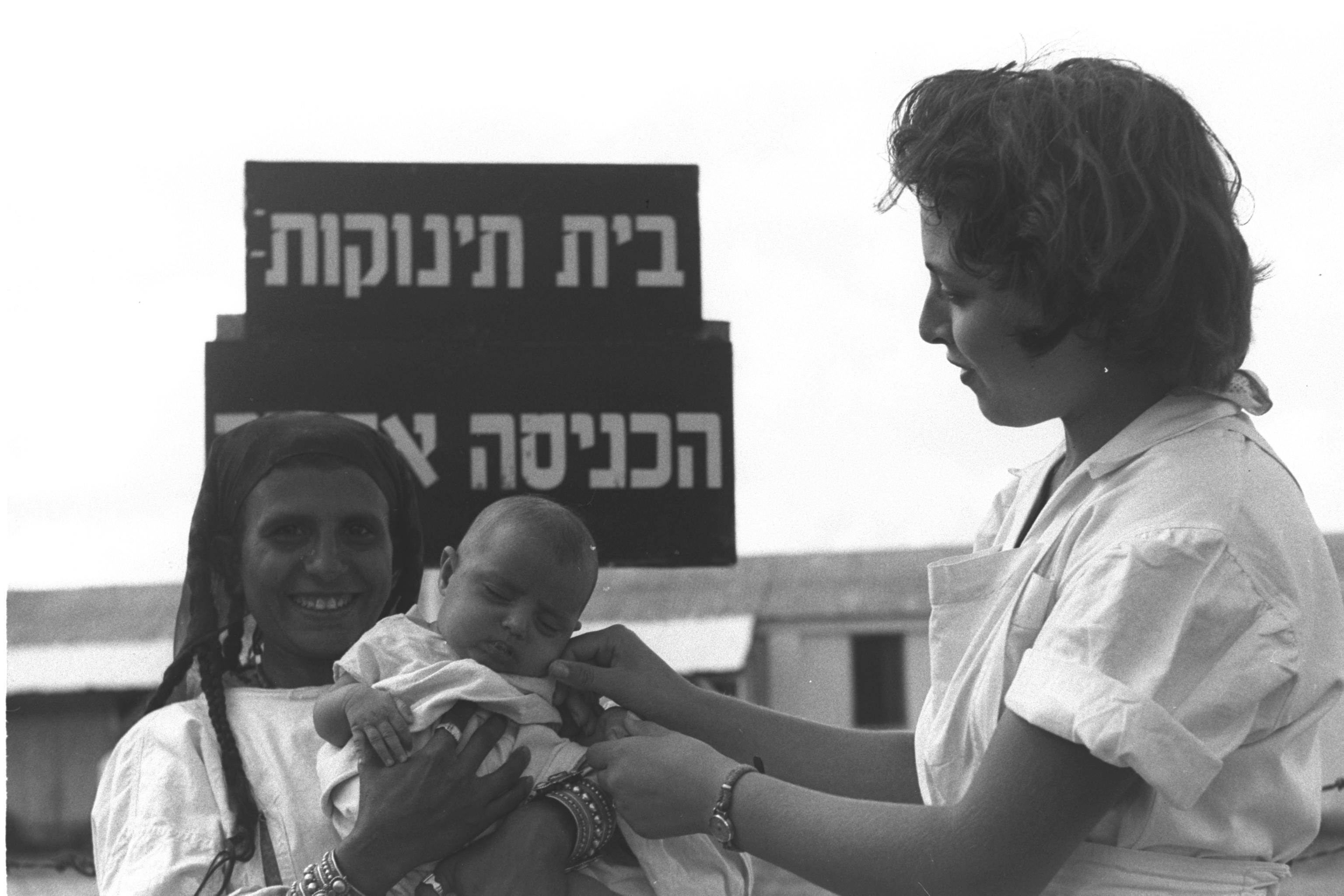 NURSE VICTORIA BEN AROYAH, WHO IMMIGRATED FROM BULGARIA, WITH A HABANI MOTHER AND HER CHILD AT EIN SHEMER. IN THE BACKGROUND IS THE CAMP BABY HOME. HABANIM YEMENITE.